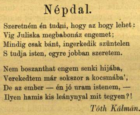 Poem of Tóth Kálmán